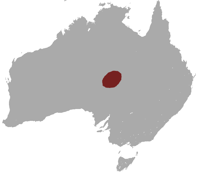 Crest-tailed Mulgara (Dasycercus cristicauda) range